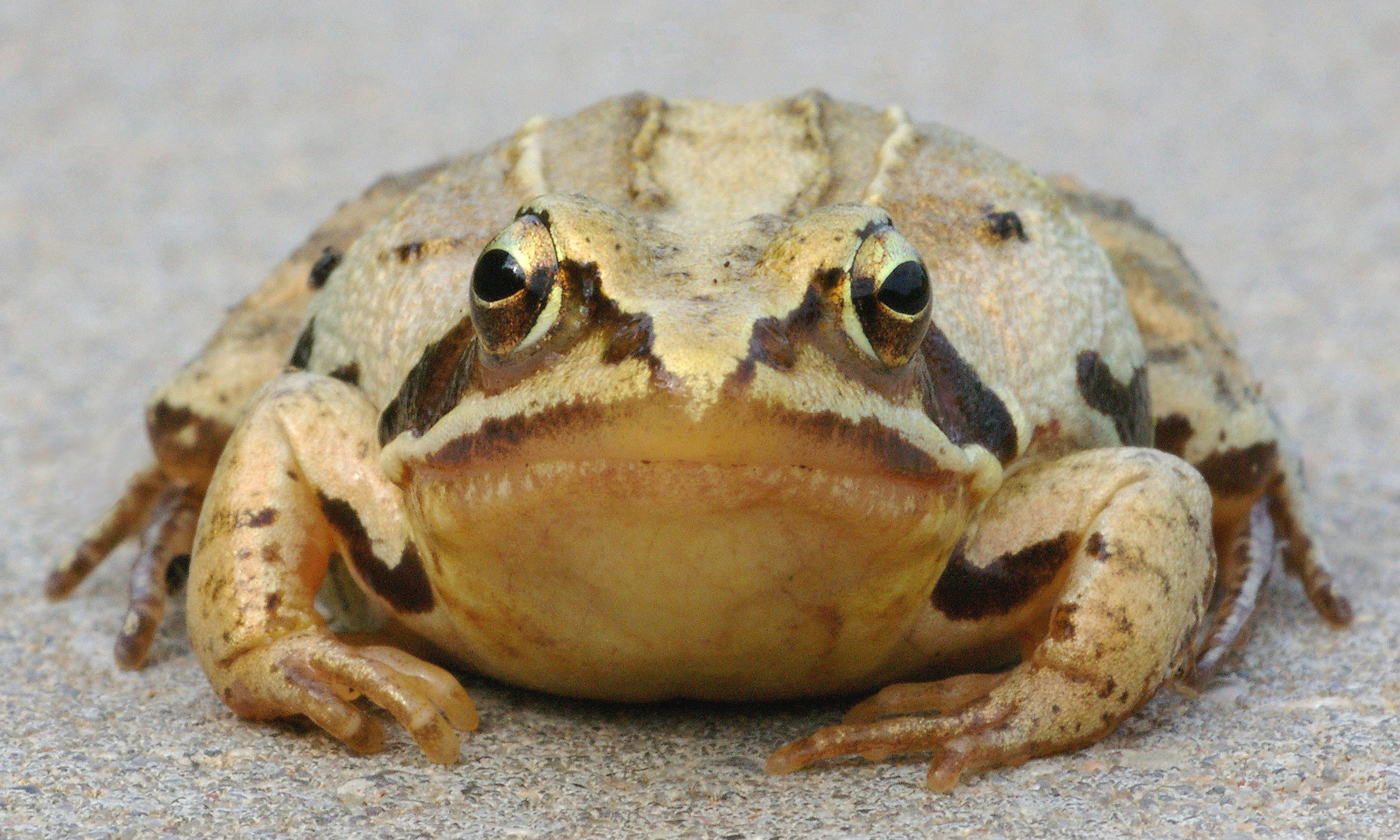 At eye-level with a Moor Frog (Rana arvalis); frontal view. This female specimen has an uncommon bright ground colour.